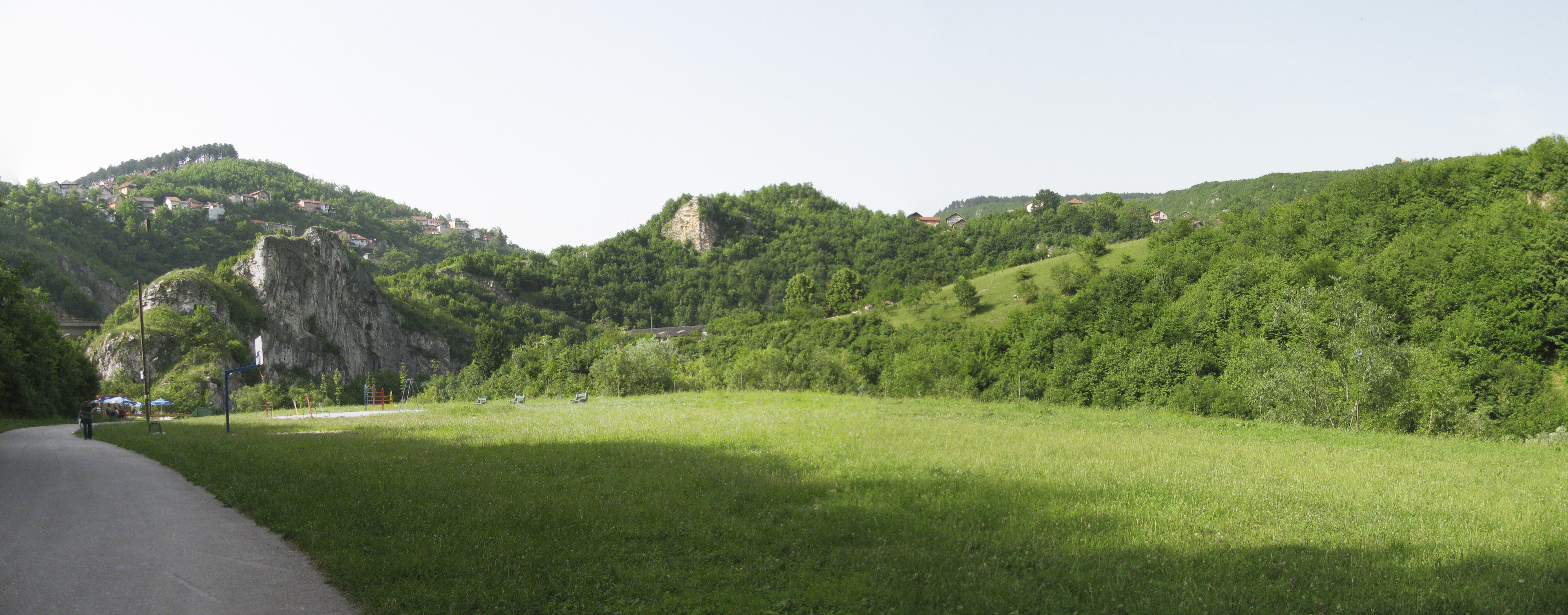 Dariva walkway, on path to Goat's bridge from Bentbasa